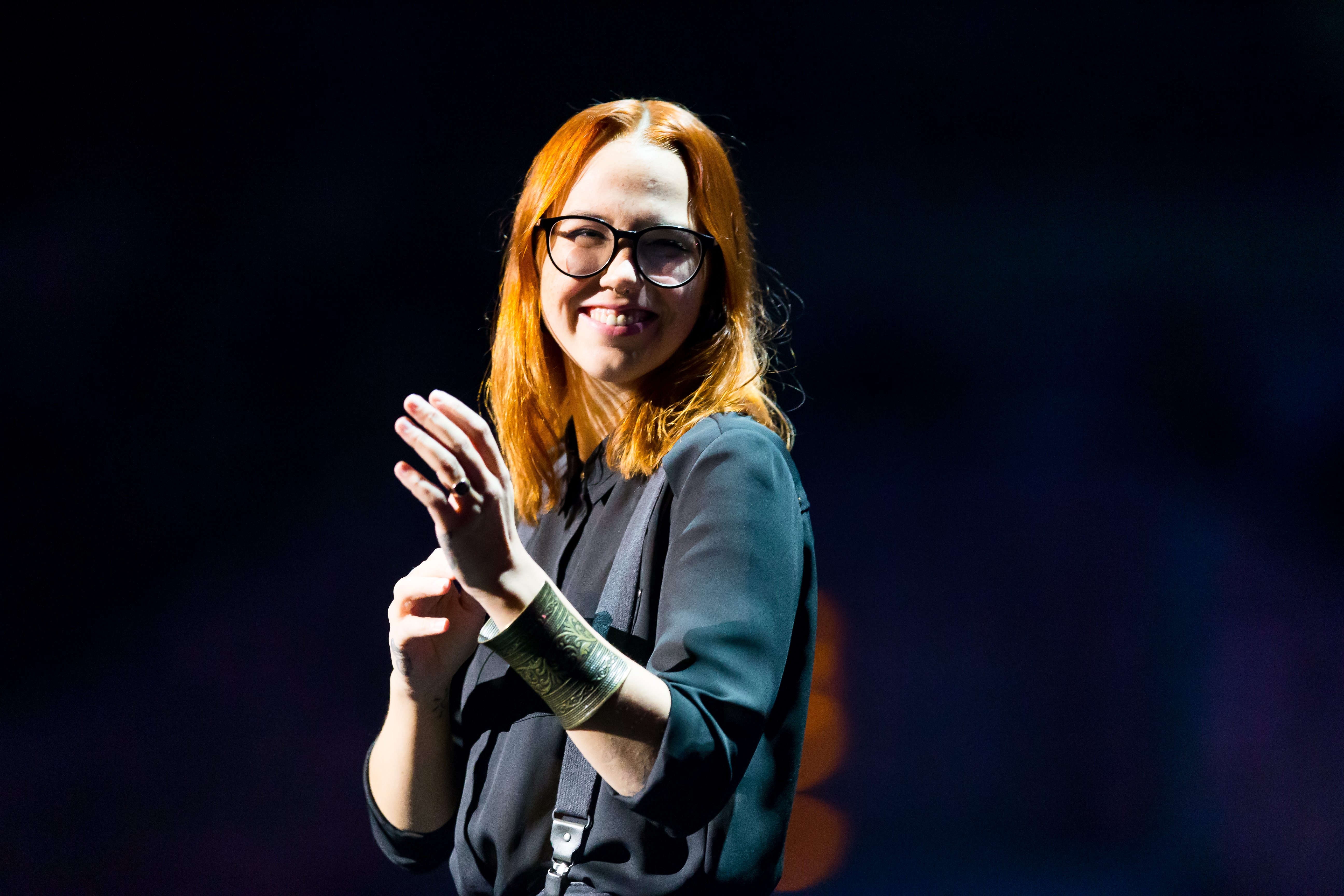 Stefanie Heinzmann during Night of the Proms at SAP Arena, Mannheim, Baden Württemberg, Germany on 2016-11-25, Photo: Sven Mandel Simple Minds, Natasha Bedingfield, Stefanie Heinzmann, John Miles, Ronan Keating, Time For Three